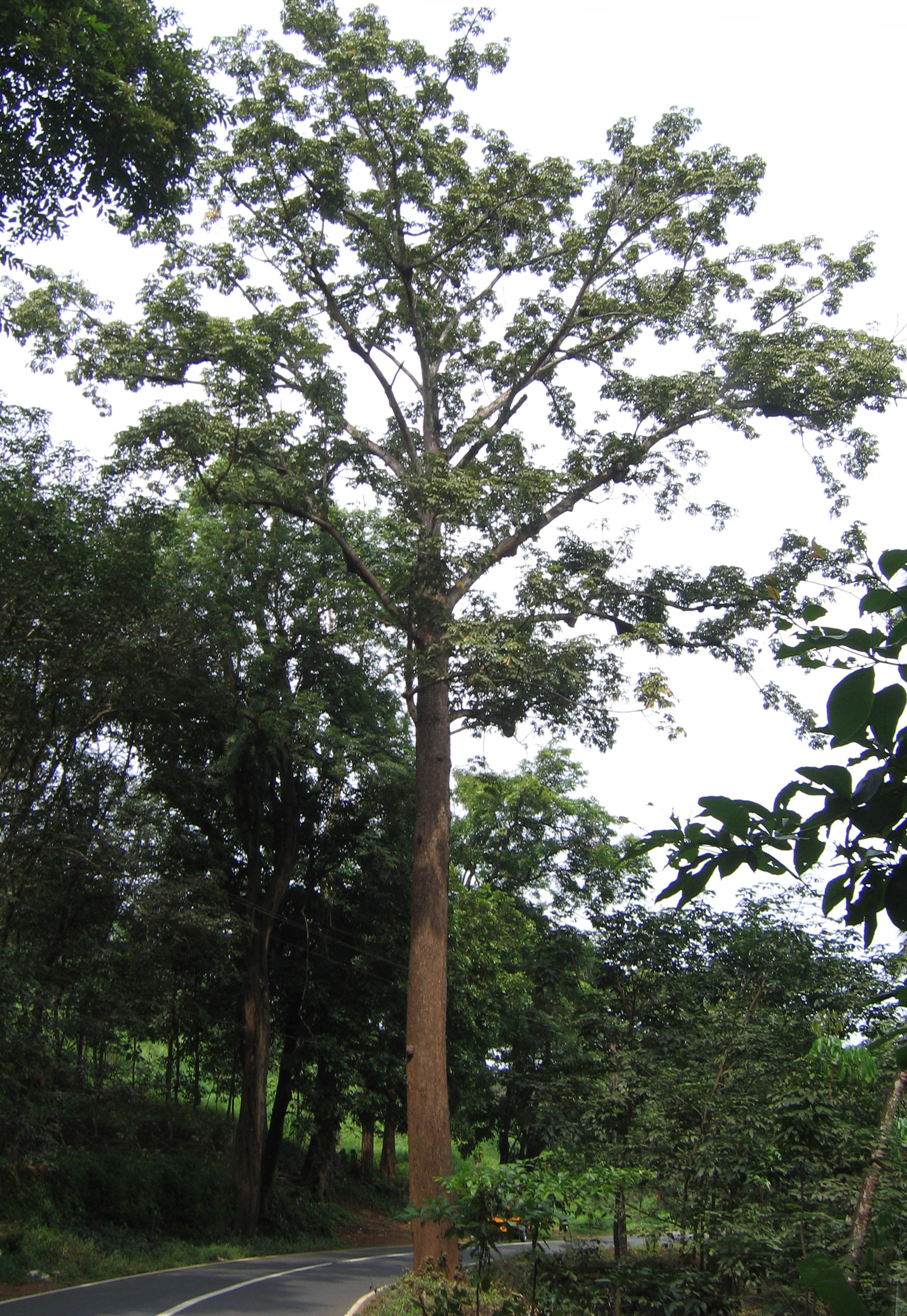 Bombax ceiba tree